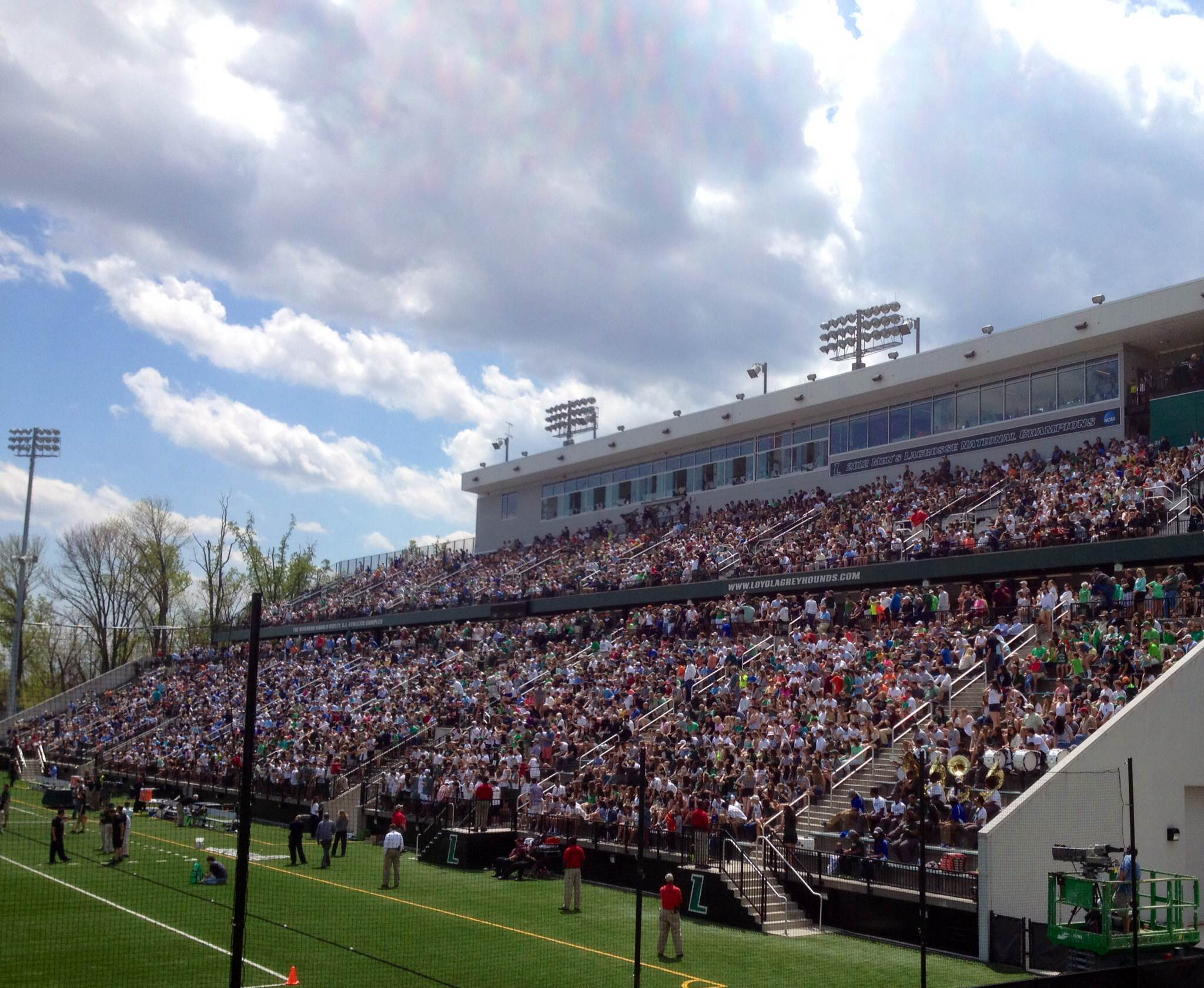 Loyola Lacrosse Greyhounds - Patriot League Championships